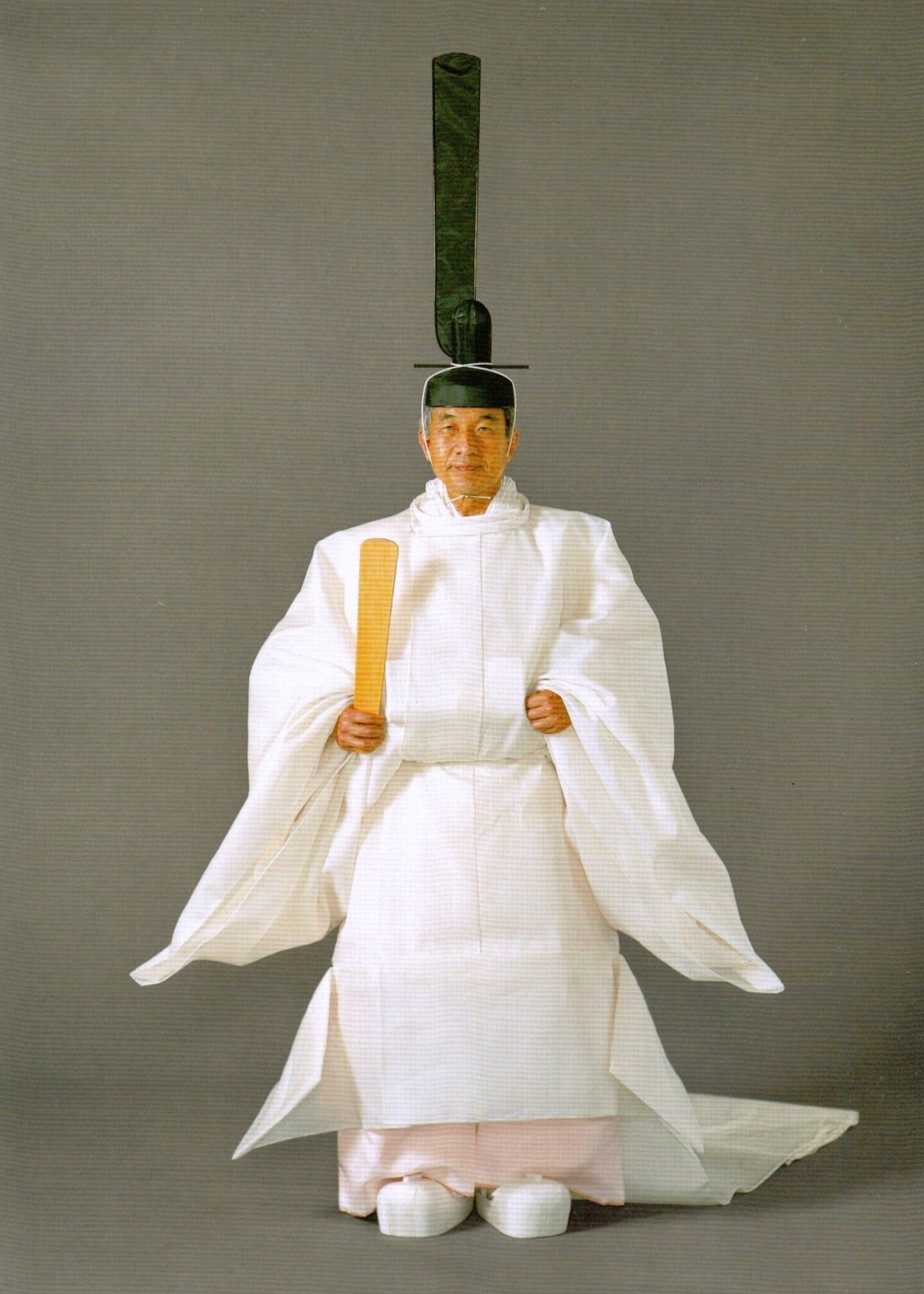 The Emperor in ceremonial attire on the day of the Ceremony of Enthronement.